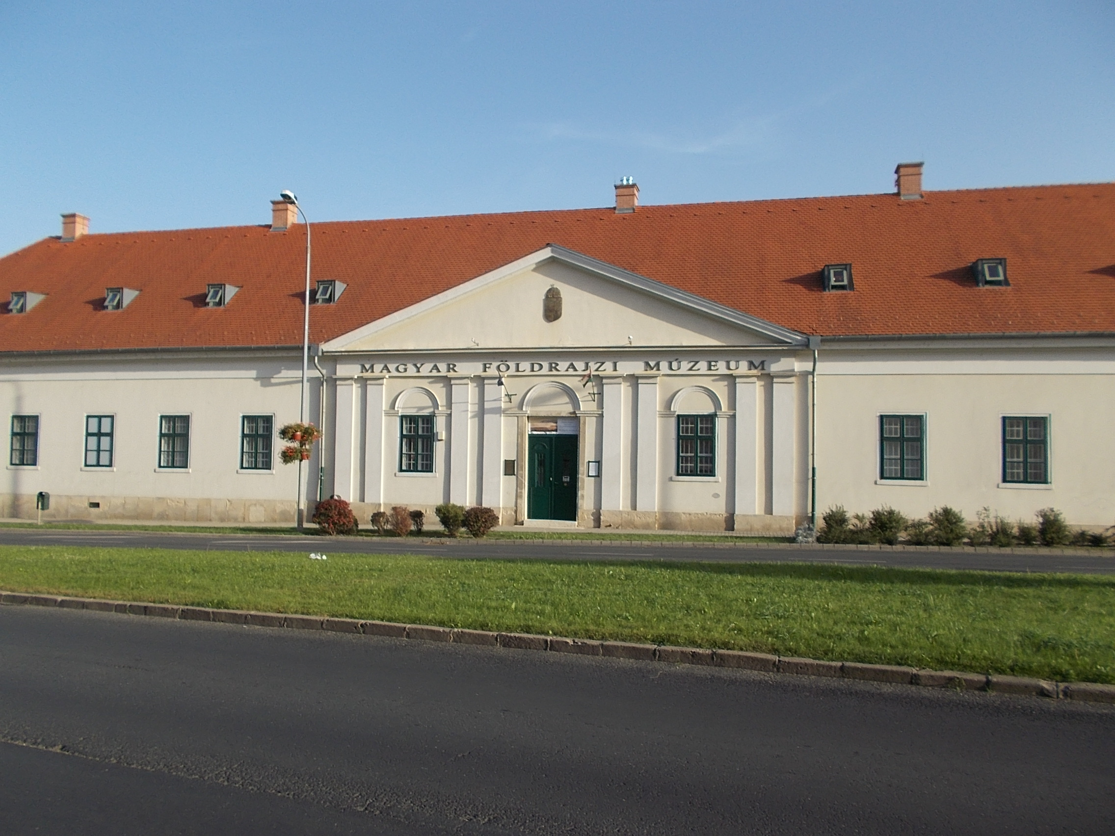 Wimpffen mansion. Main building. Hungarian Geographical Museum. - Budai street, Érd, Pest County, Hungary